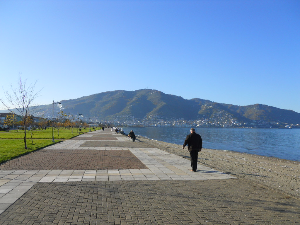 Ordu coast path walk on a sunny day